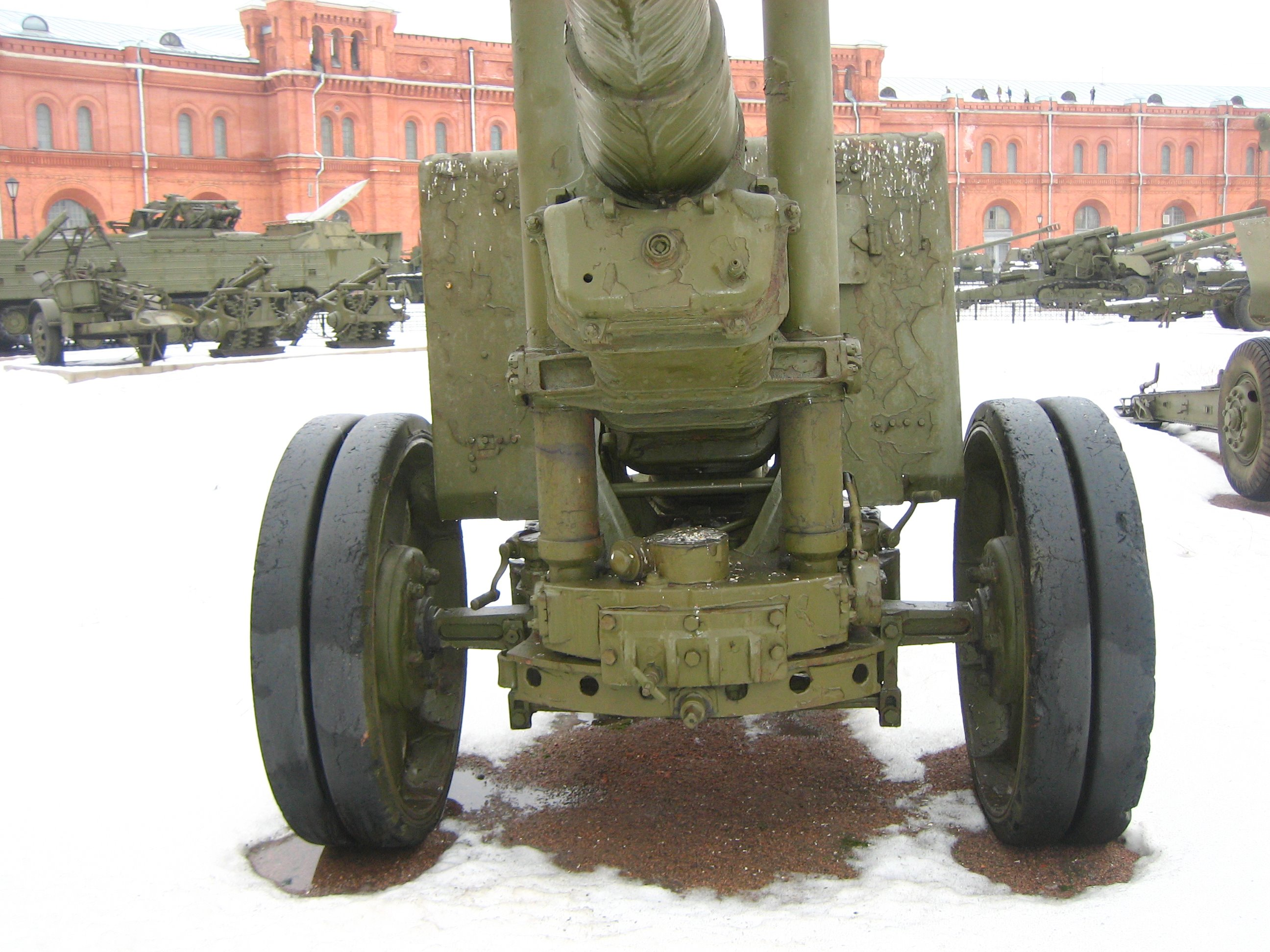 Soviet 122 mm А-19 Mark 1931 gun, displayed in Saint Petersburg Artillery Museum. Photo taken on 3 Marсh, 2007. Source: Photo by me, User:Saiga20K.